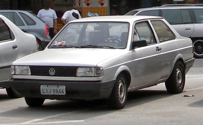 Brazilian Volkswagen Voyage, late facelift version